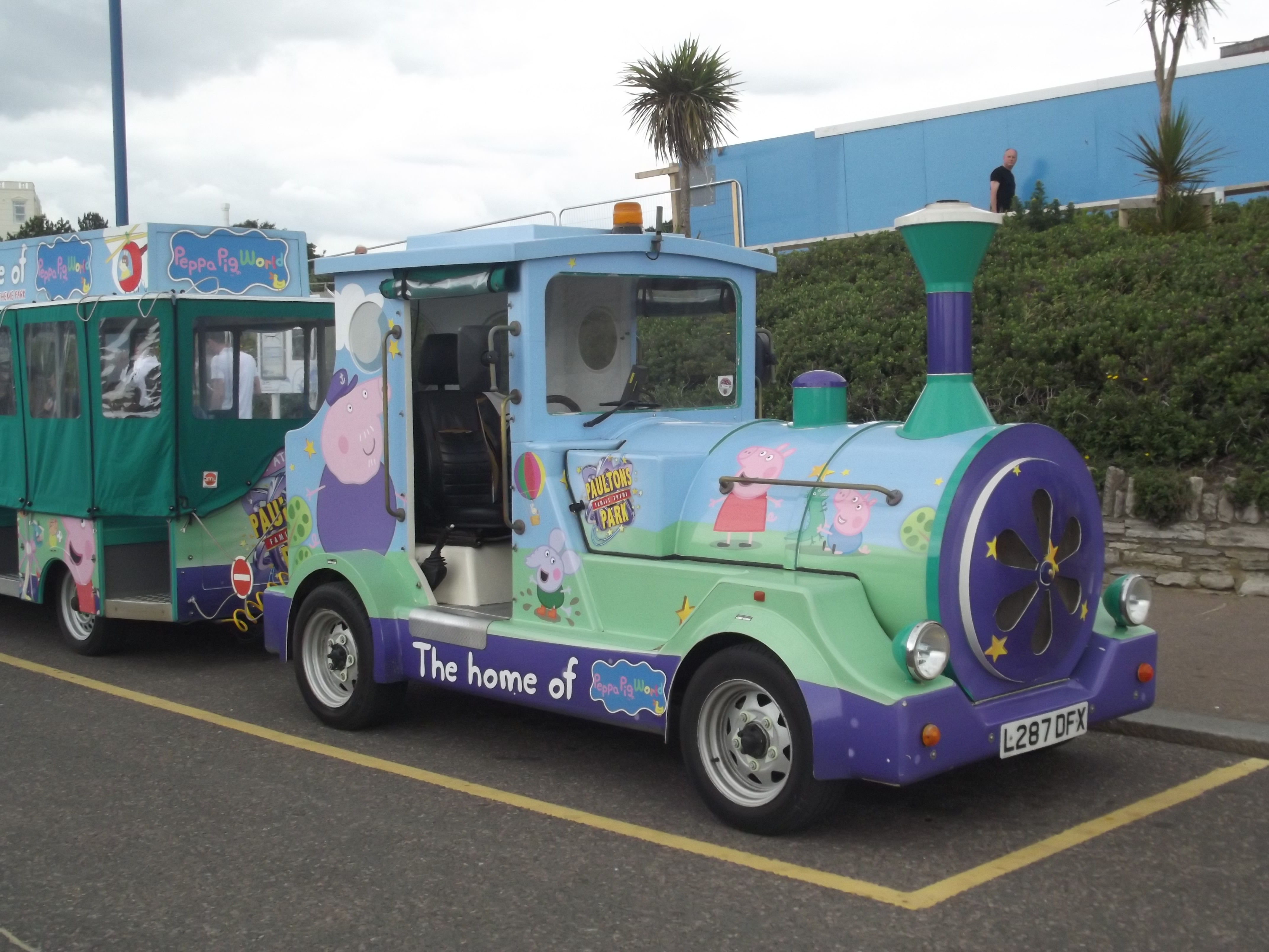 The beach to the east of Bournemouth Pier. Past the beach huts, towards the East Cliff Lift. Land train's that go from Bournemouth Pier to Boscombe Pier. Advertising Peppa Pig World. From Paulton's Family Theme Park.